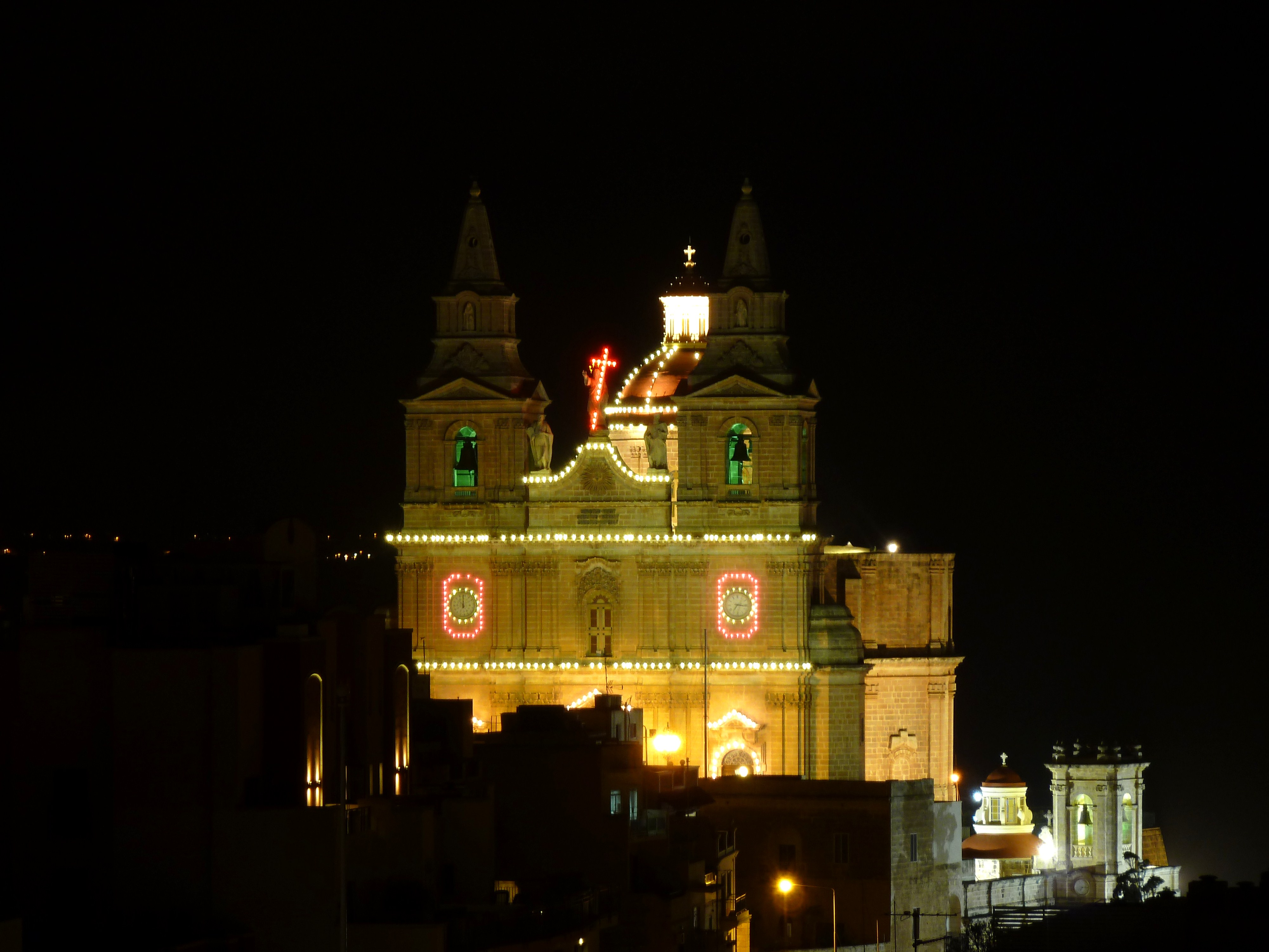 Church in Mellieha (Malta) with festive lights at night on All Saints Day.